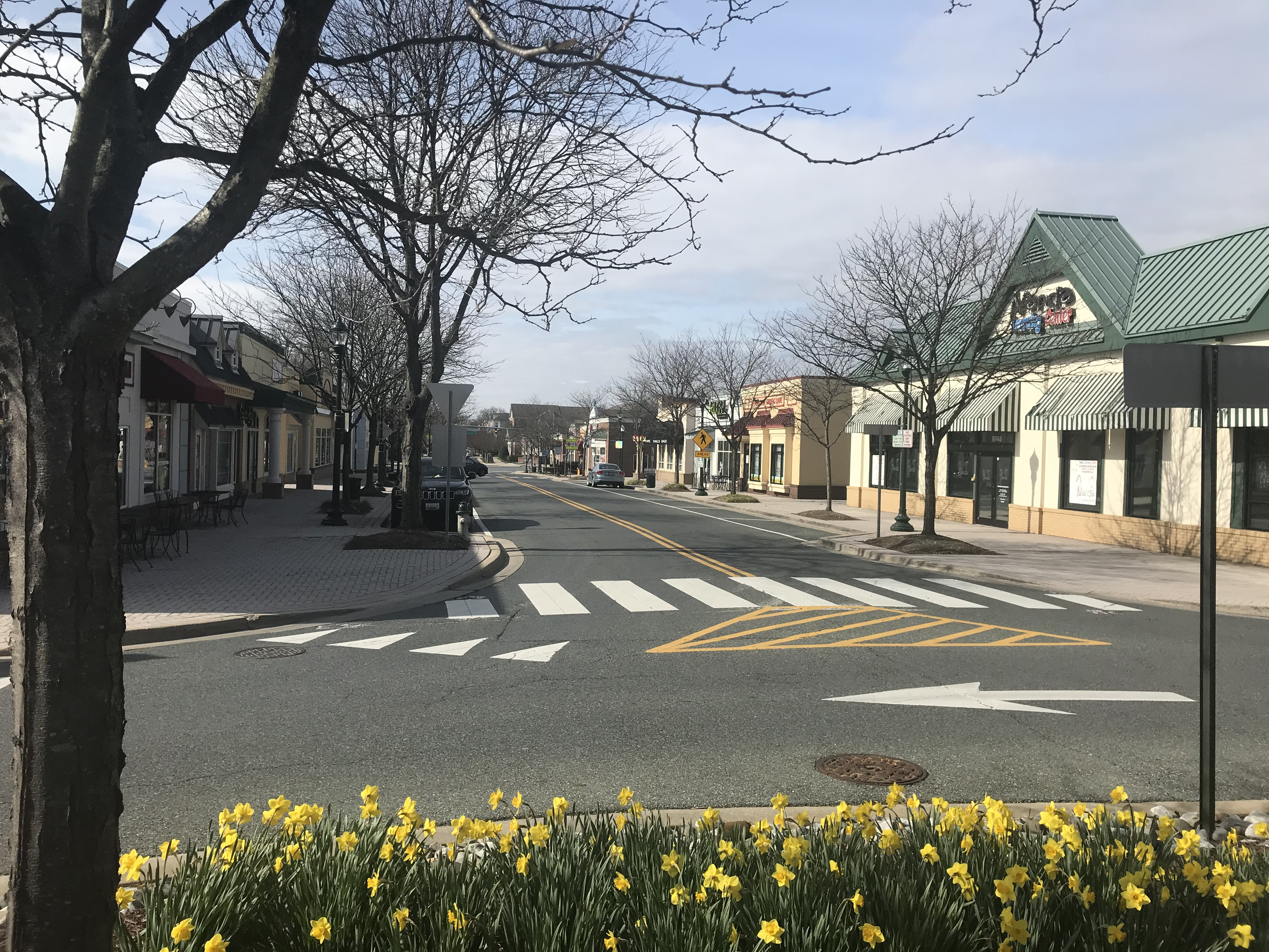 A view of part of Traville Gateway Shopping Center in North Potomac, Maryland, USA. Very little traffic because of the coronavirus restrictions.